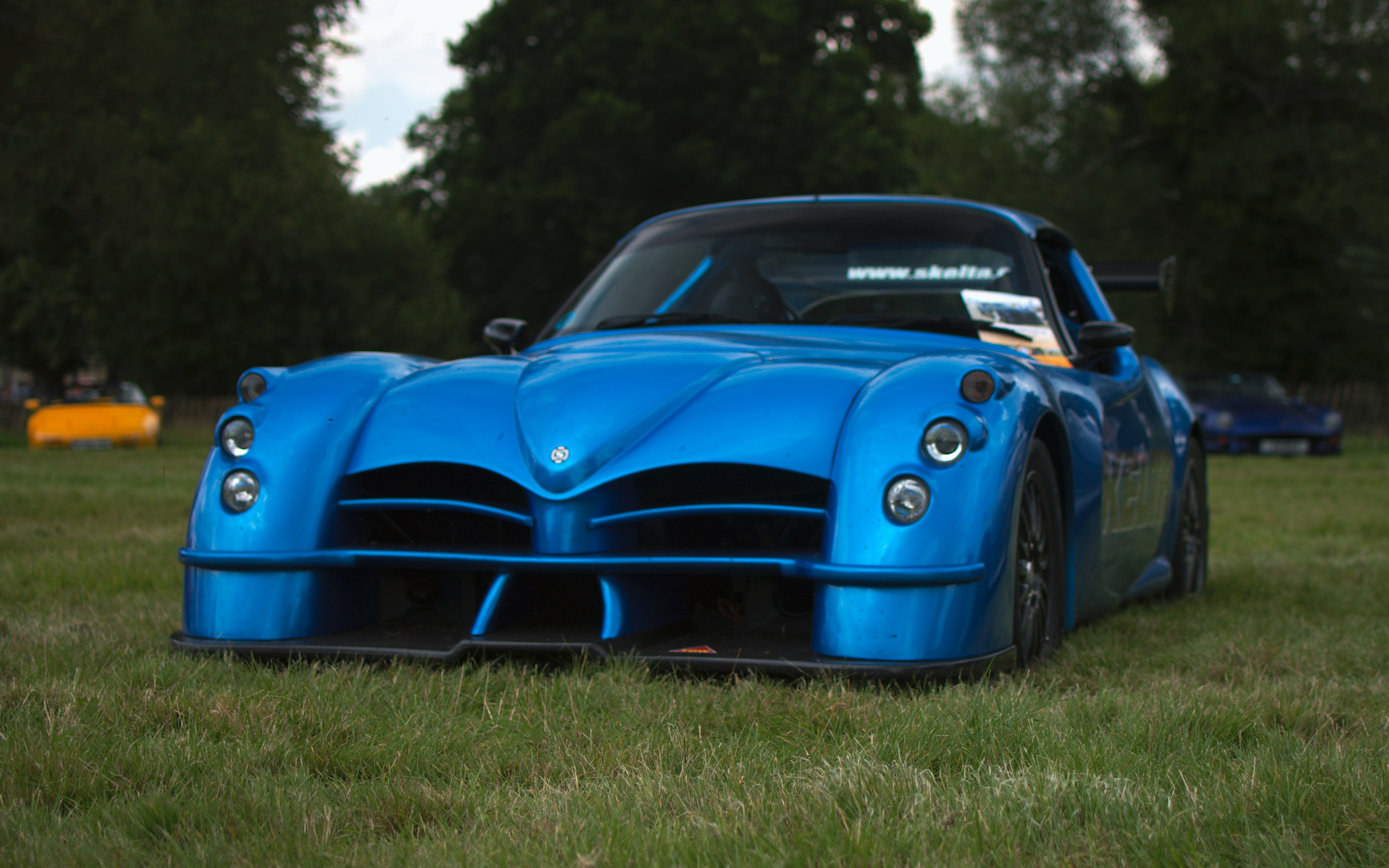 The Skelta G-Force, a car produced by australian performance car company Skelta.